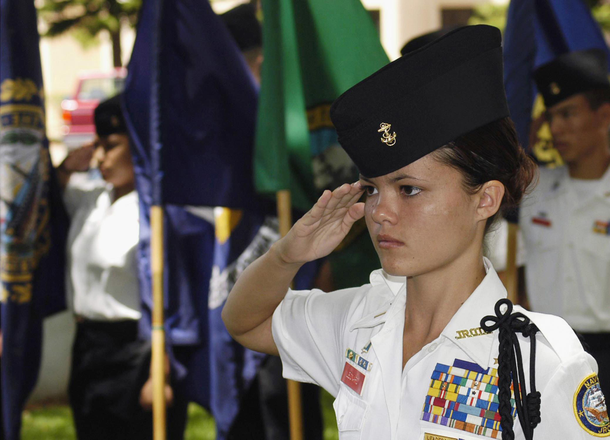 Battalion Commander Cadet Ensign Melanie Leonard, Radford High School Junior ROTC (Reserve Officers Training Corps), salutes during the parading of the colors ceremony held at the Parchee Memorial Submarine Base at this year's Memorial Day Ceremony. Location: Pearl Harbor, Hawaii (HI), United States of America (USA)